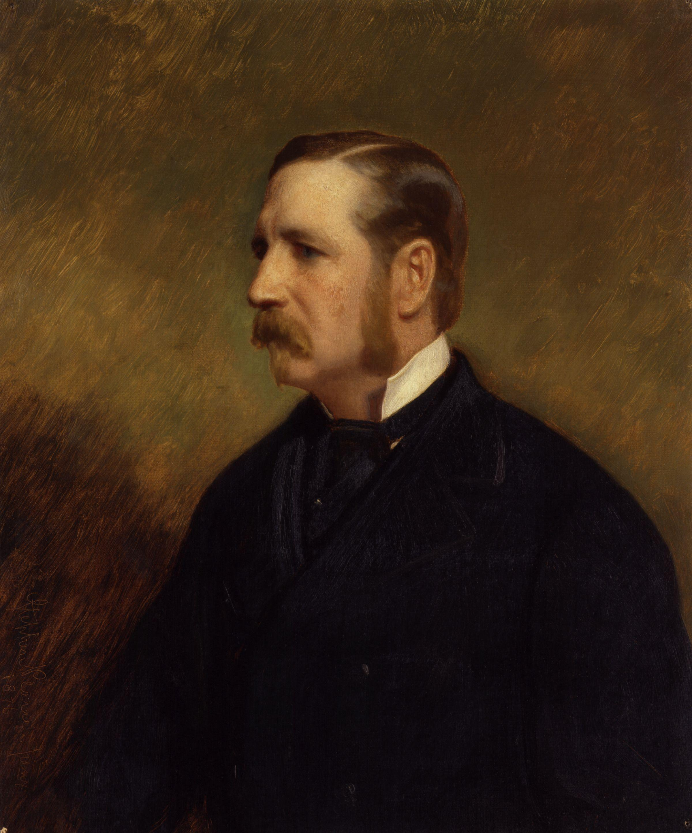 Sir Allen William Young, by Stephen Pearce (died 1904). All images in this batch have been confirmed as author died before 1939 according to the official death date listed by the NPG.